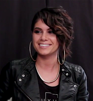 Leah LaBelle during a 2012 interview